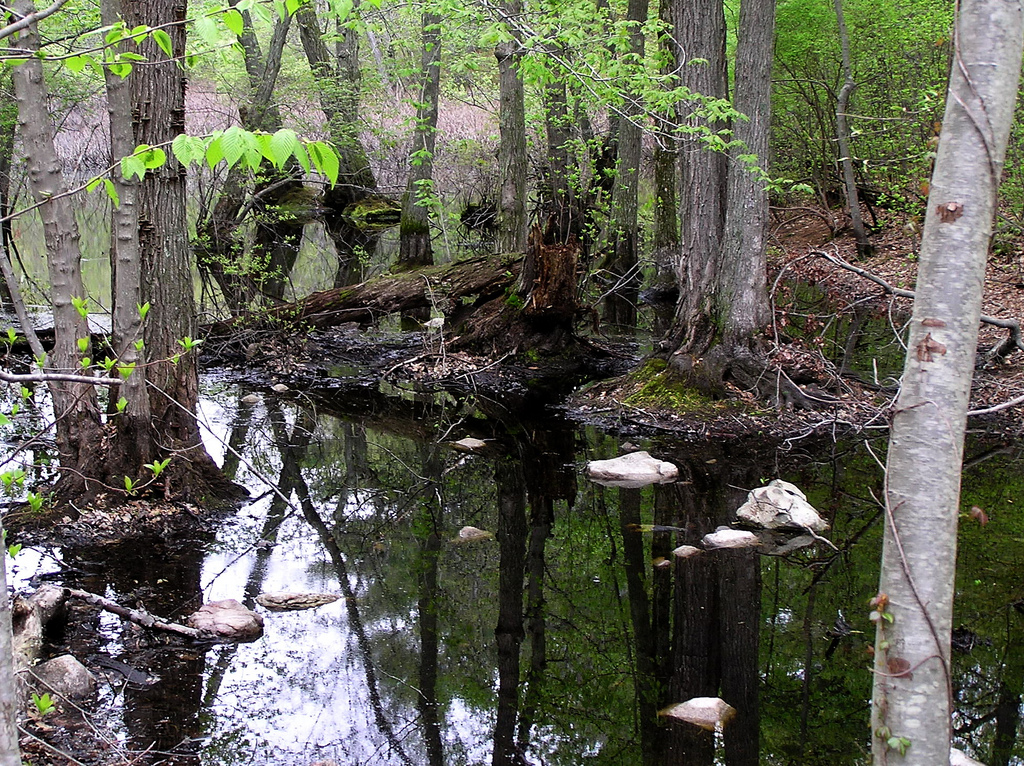 Stony Brook Reservation in Boston, Massachusetts